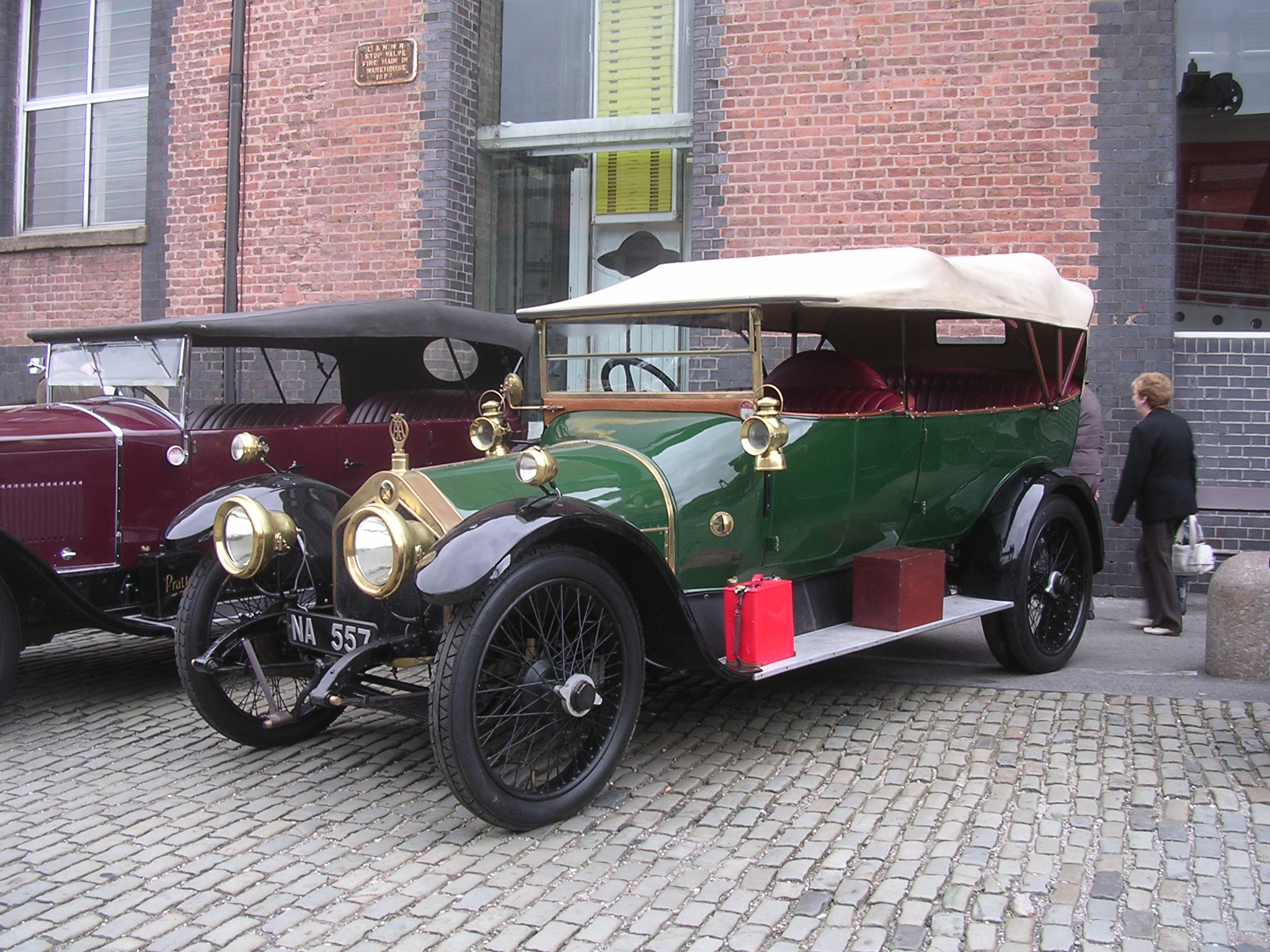 Crossley 20/25 tourer (DVLA) 1st reg 31 December 1925, 4576cc production ceased early 1919?